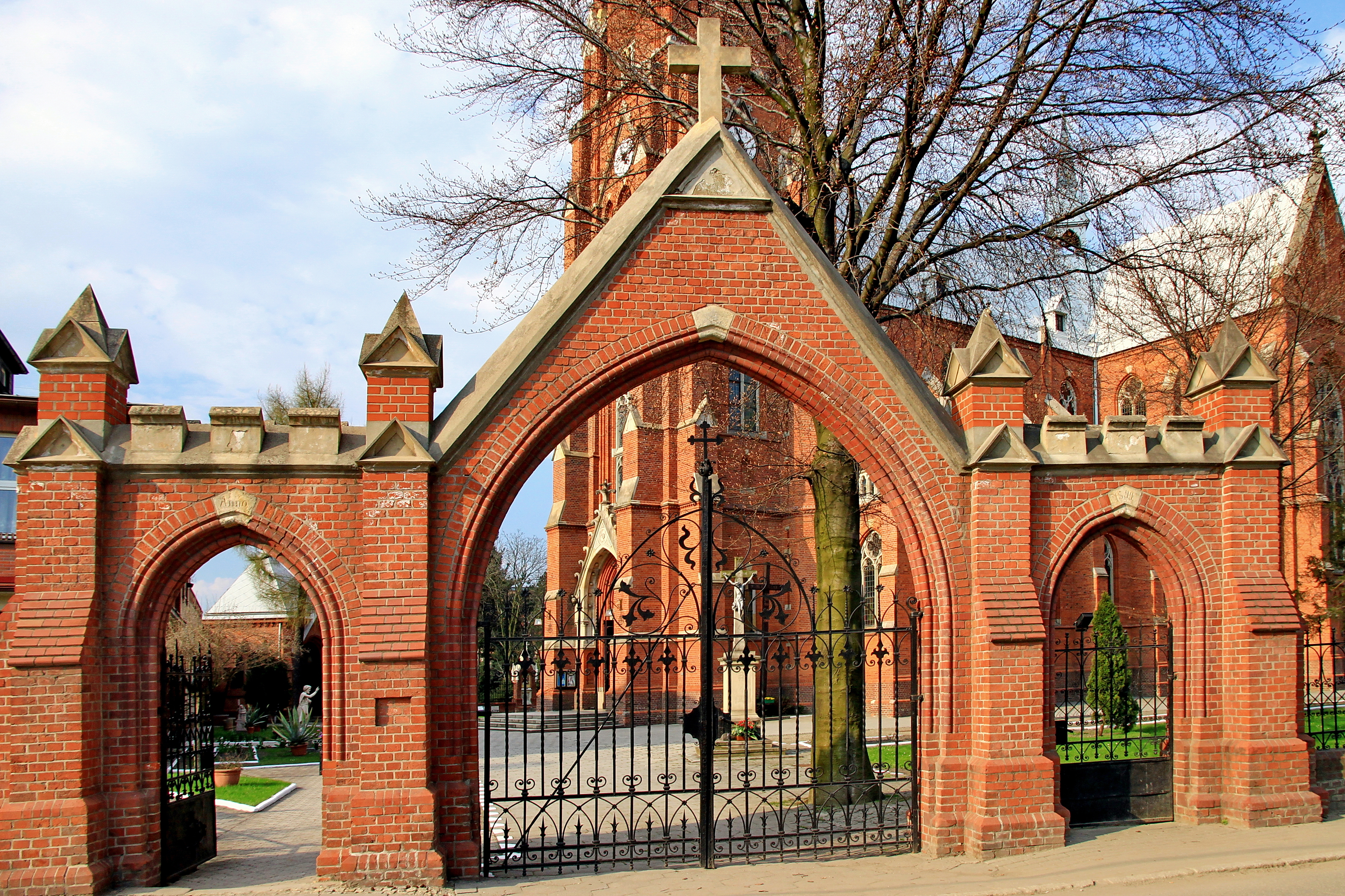 Racibórz, Fence Gate of St. John the Baptist Church, build in 1899